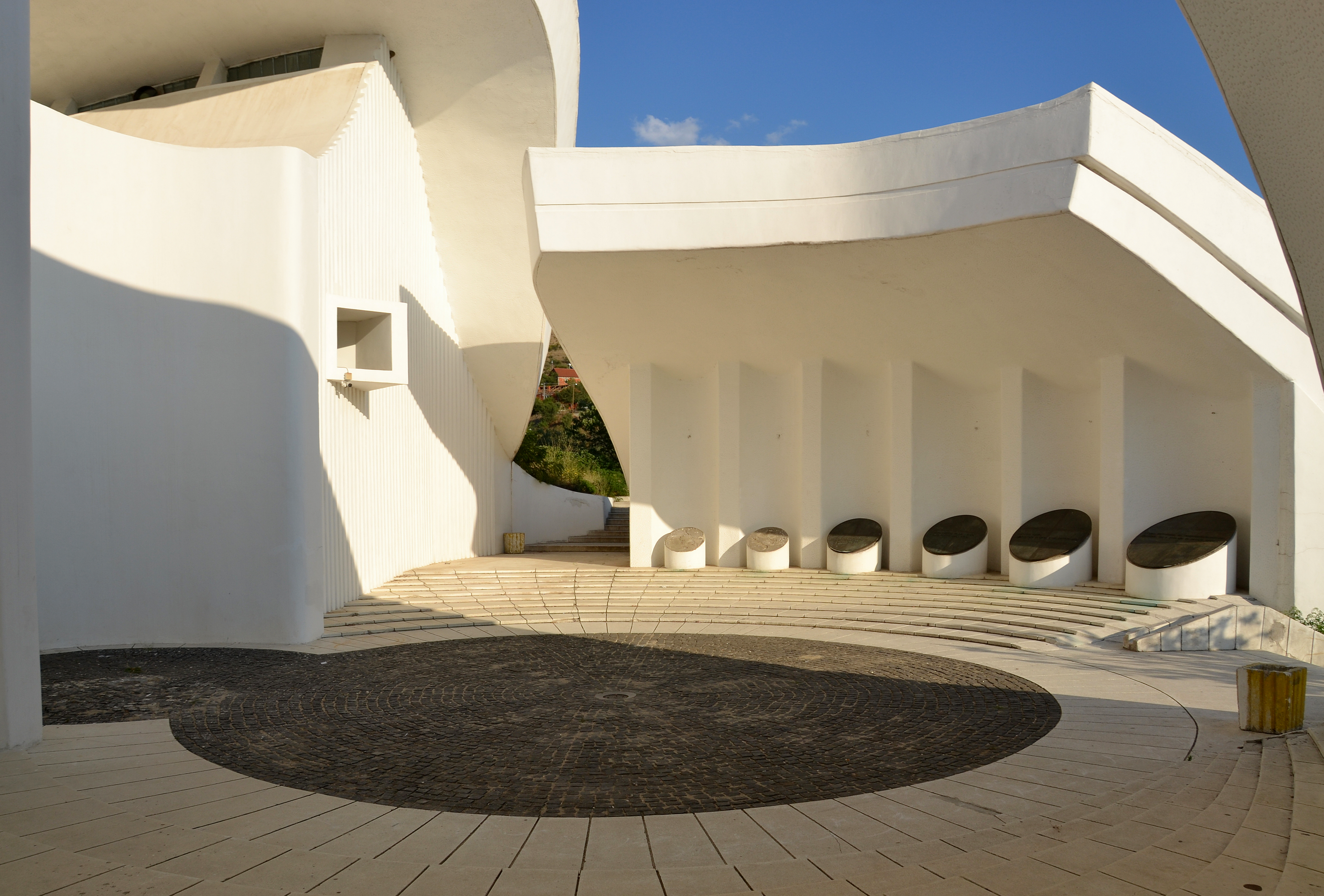 Veles Memorial Ossuary, Macedonia